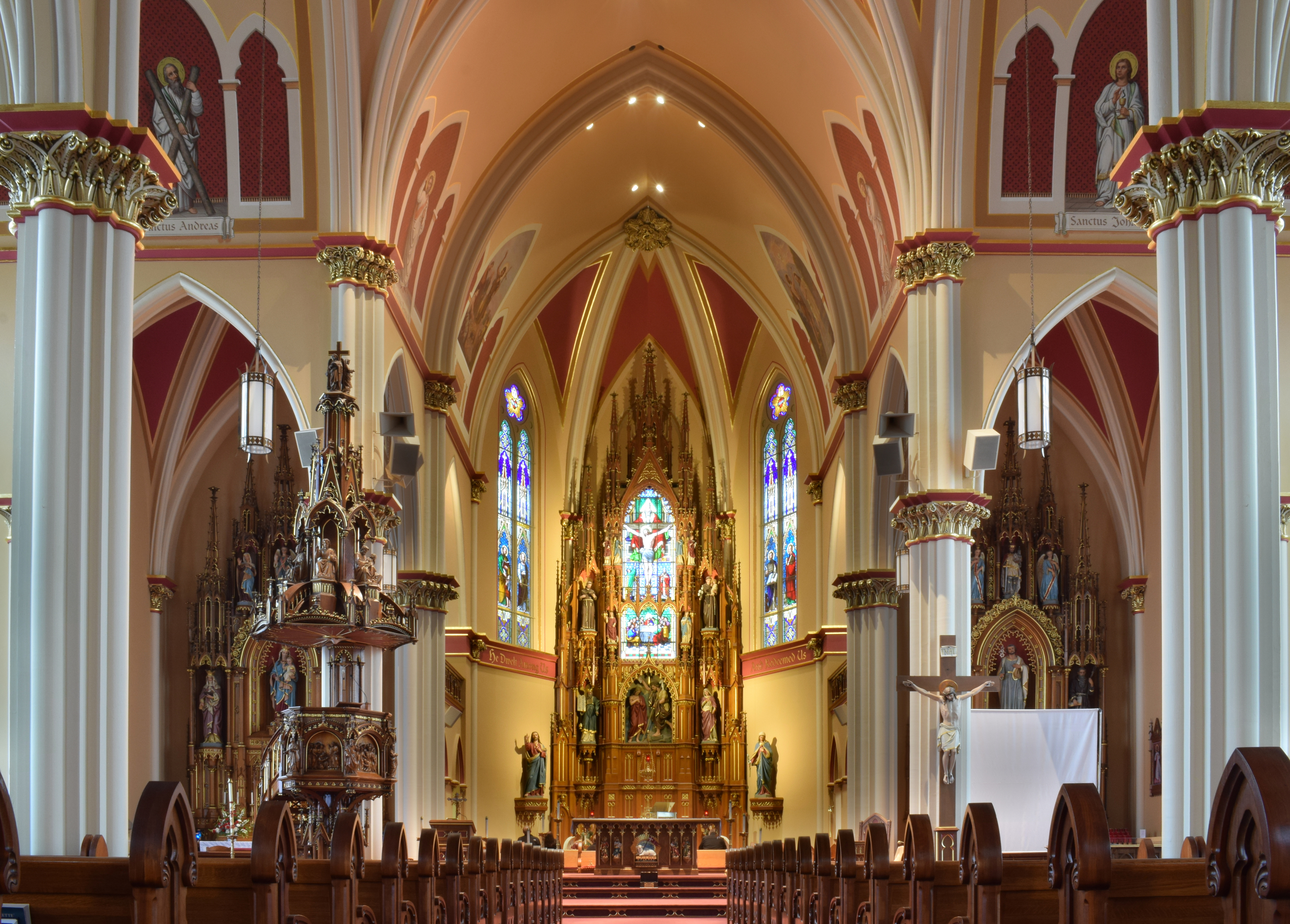 Saint John the Baptist Church (Glandorf, Ohio) - nave